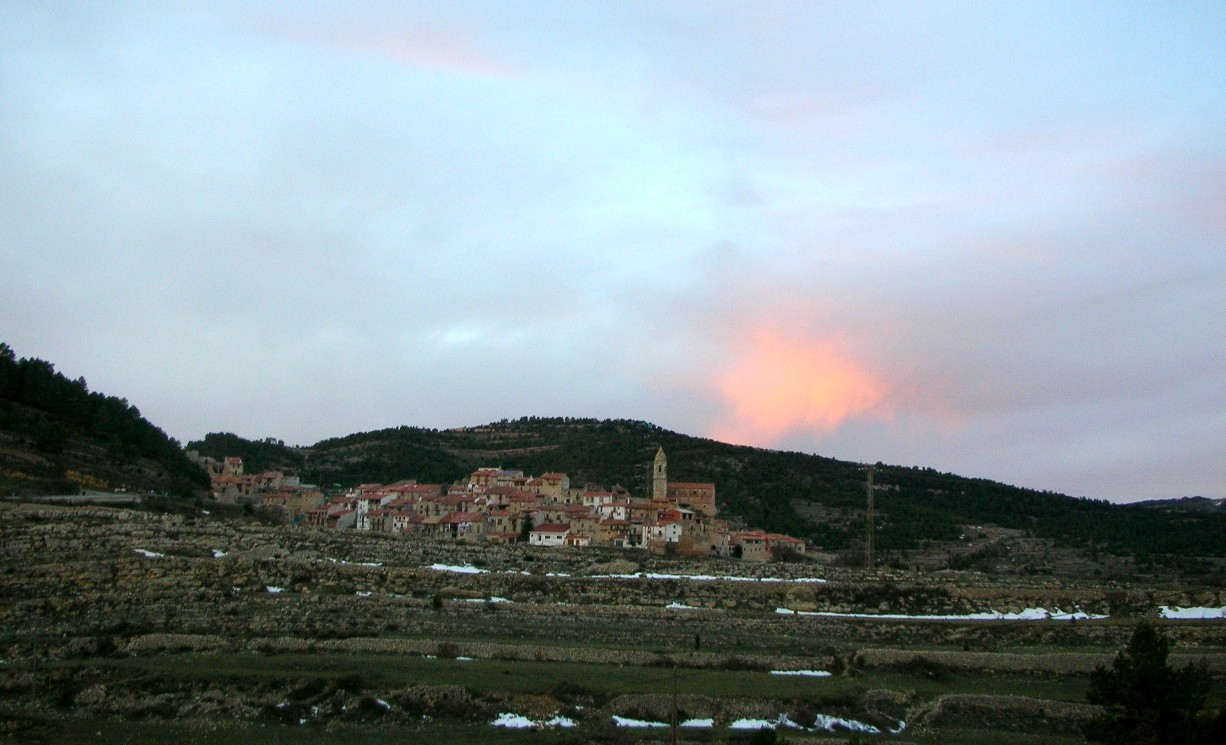 Boixar, almost abandoned village in els Ports de Beseit